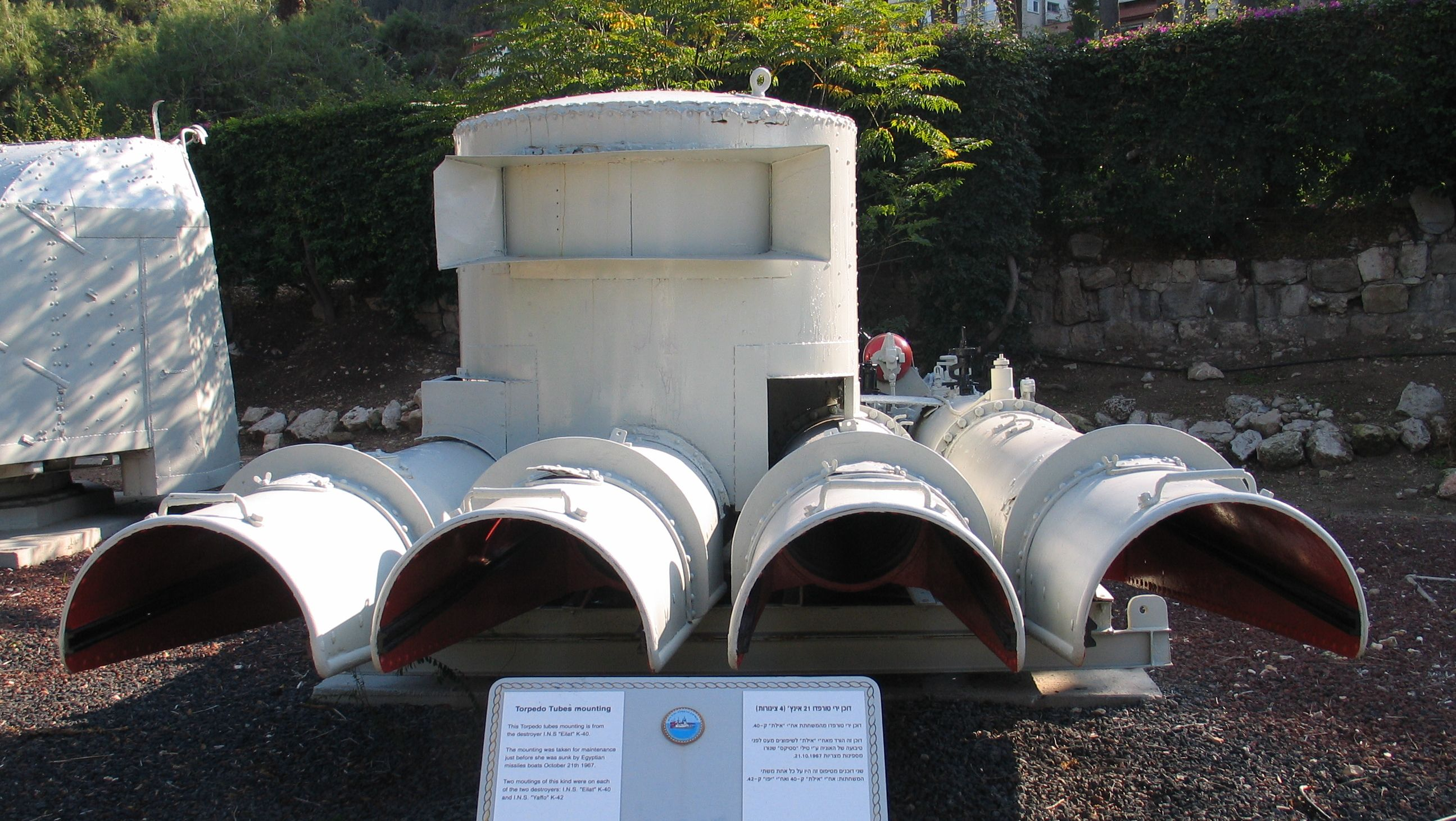 Quad torpedo tube from INS Eilat (K-40) (apparently for 21 in torpedo Mk IX) in the Clandestine Immigration and Naval Museum, Haifa, Israel.